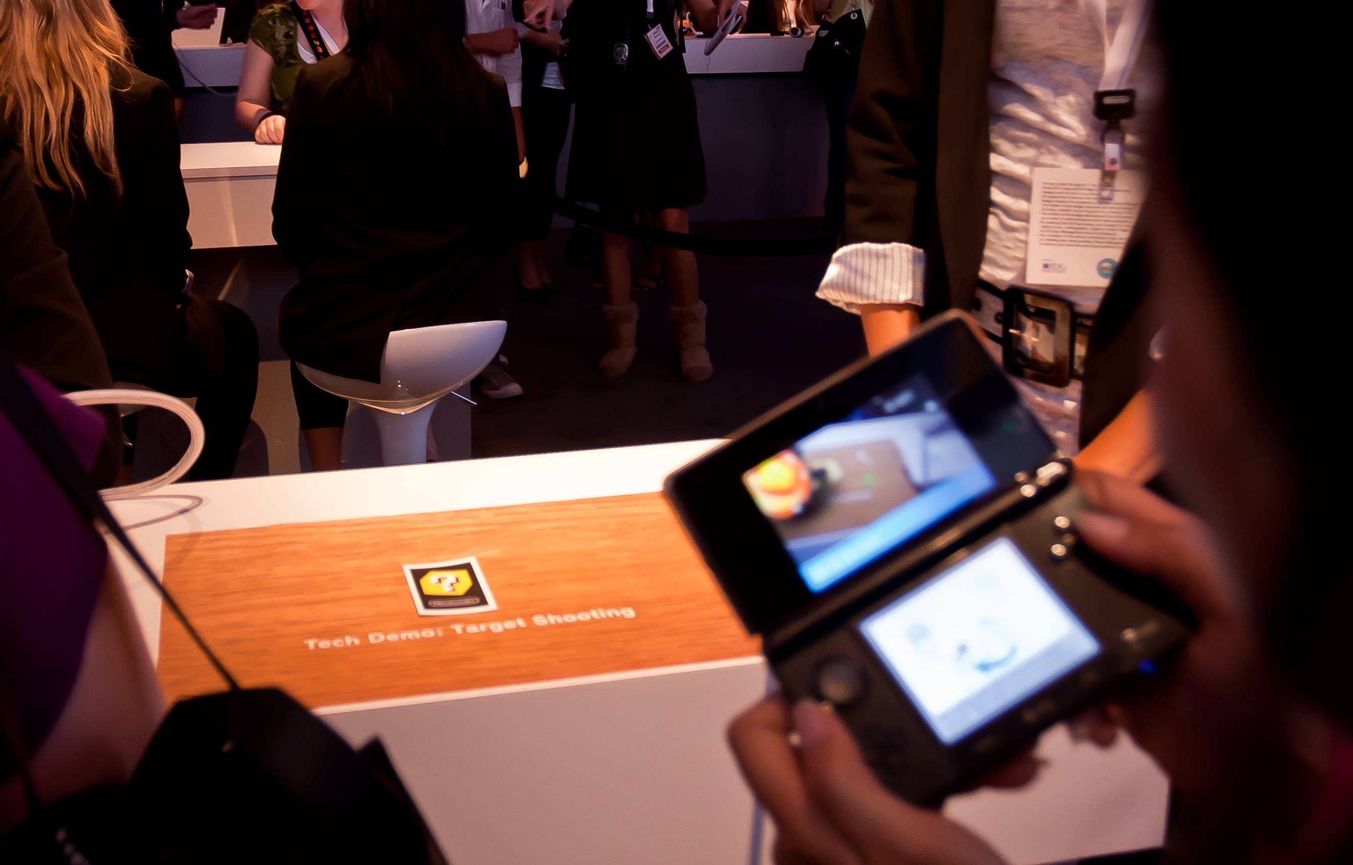 Nintendo 3DS "Target Shooting" hands-on augmented reality technology demonstration at the 2010 Electronic Entertainment Expo